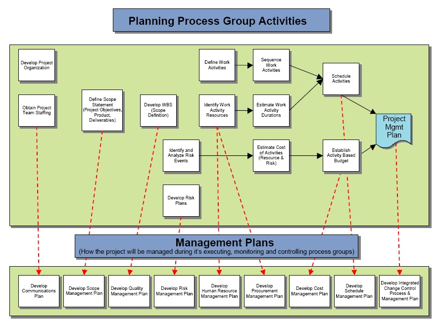 Planning Process Group Activities